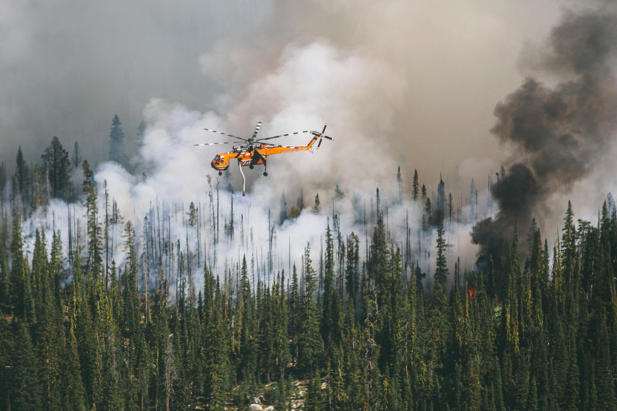 Heavy helicopter (skycrane) flying near the edge of the Ridge Fire. The Ridge Fire in the Boise National Forest, Idaho near Lowman, ID began on 16 July 2013 by lightning and has consumed approximately 5,143 acres (2,081 ha). The Ridge Fire is approximately 20% contained. Photo by Kyle S. Ford